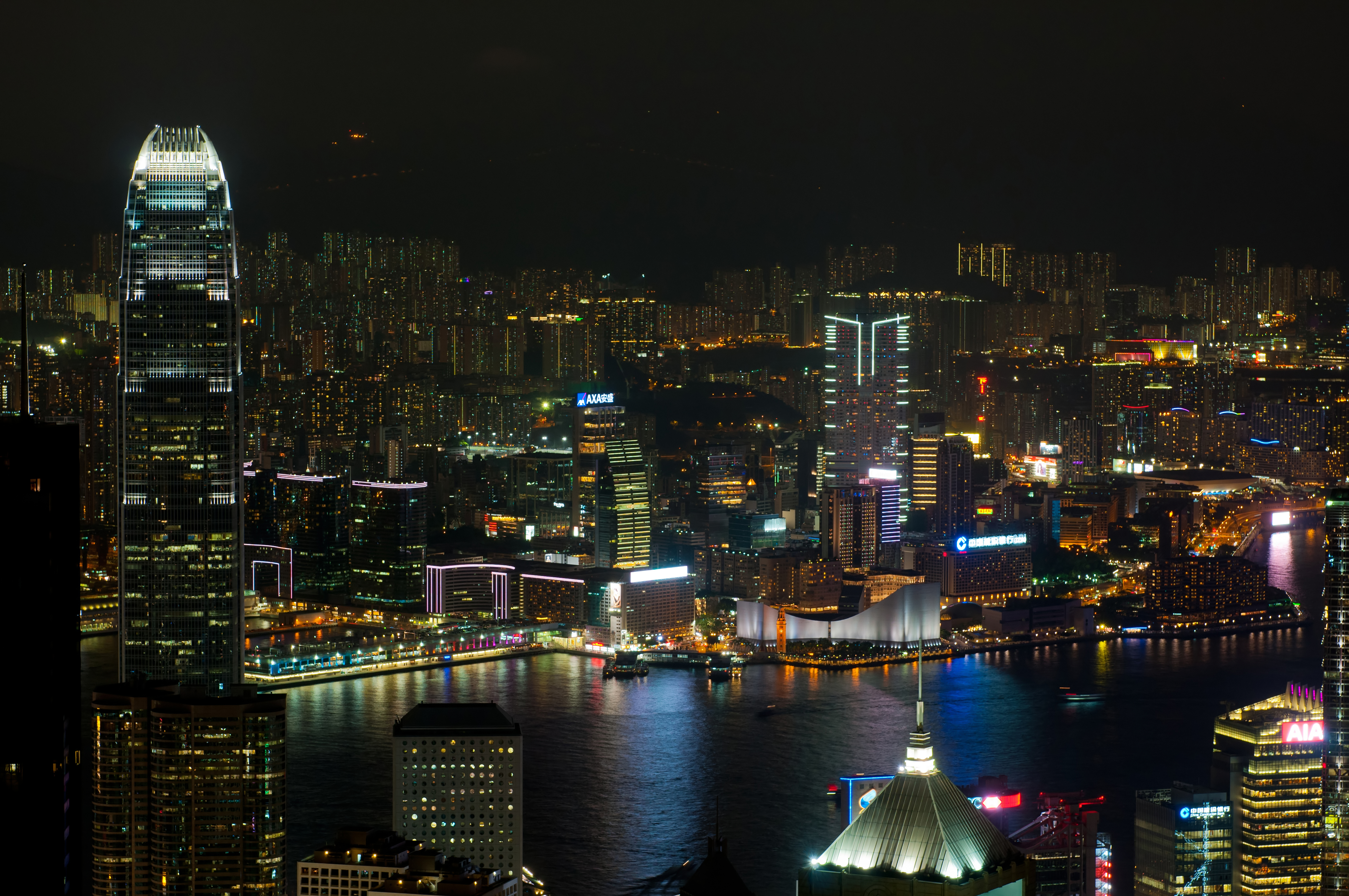 Hong Kong; View from Victoria Peak to Victoria Harbour and Kowloon